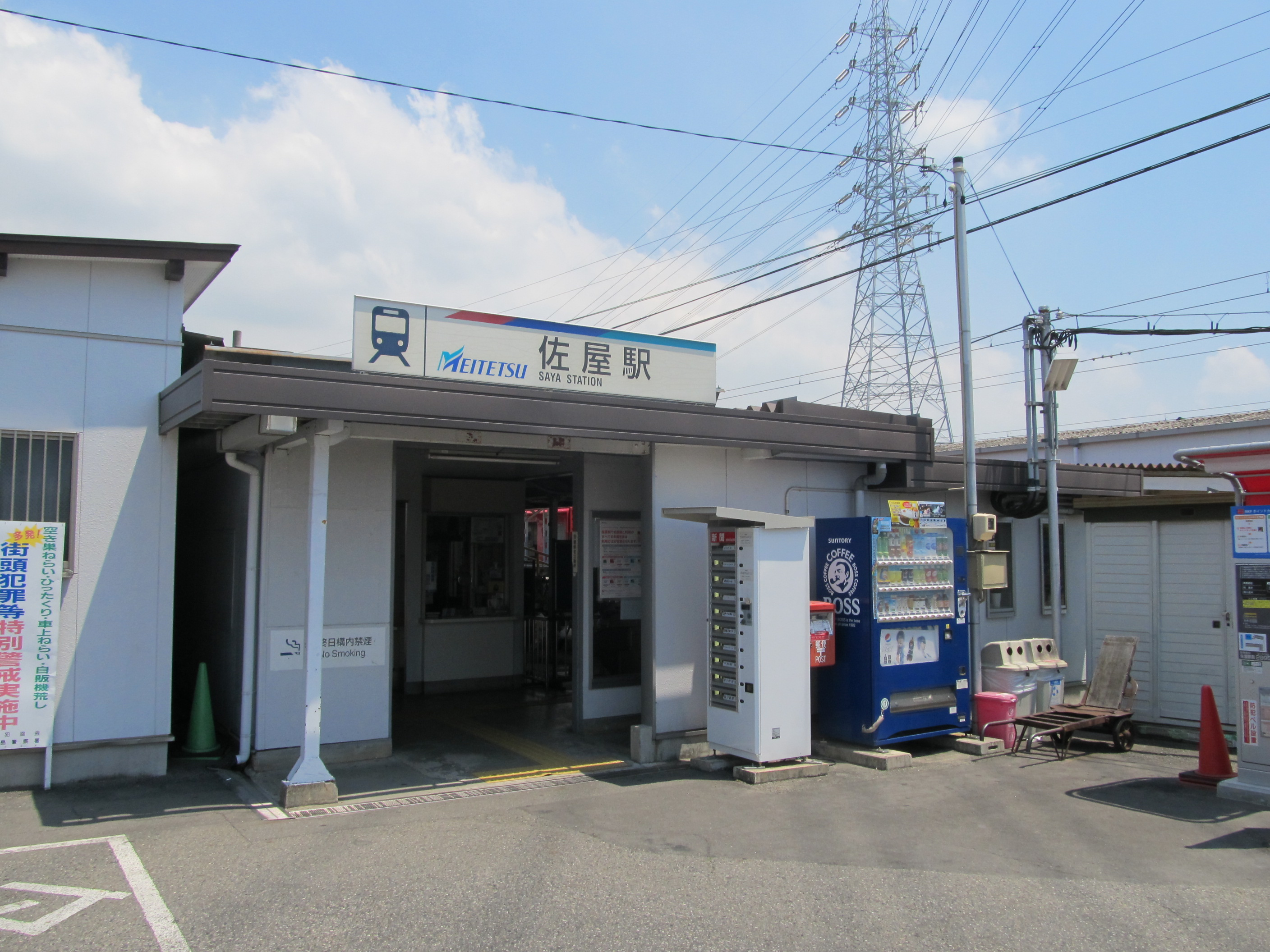 Nagoya Railroad Bisai Line Saya Station Building